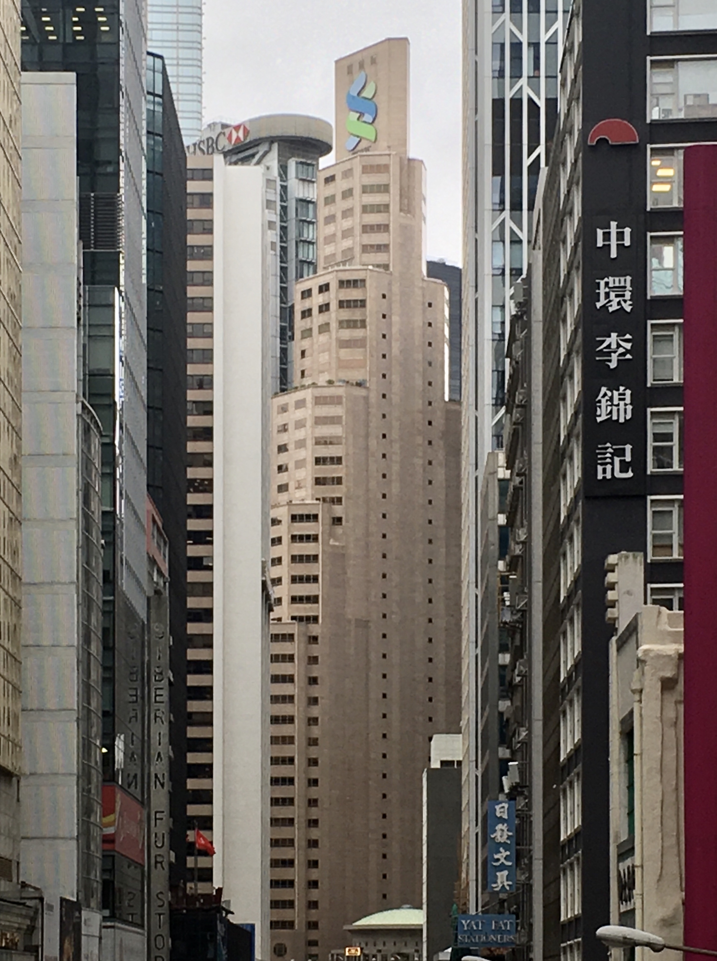 Looking east from the Des Voeux Road Central